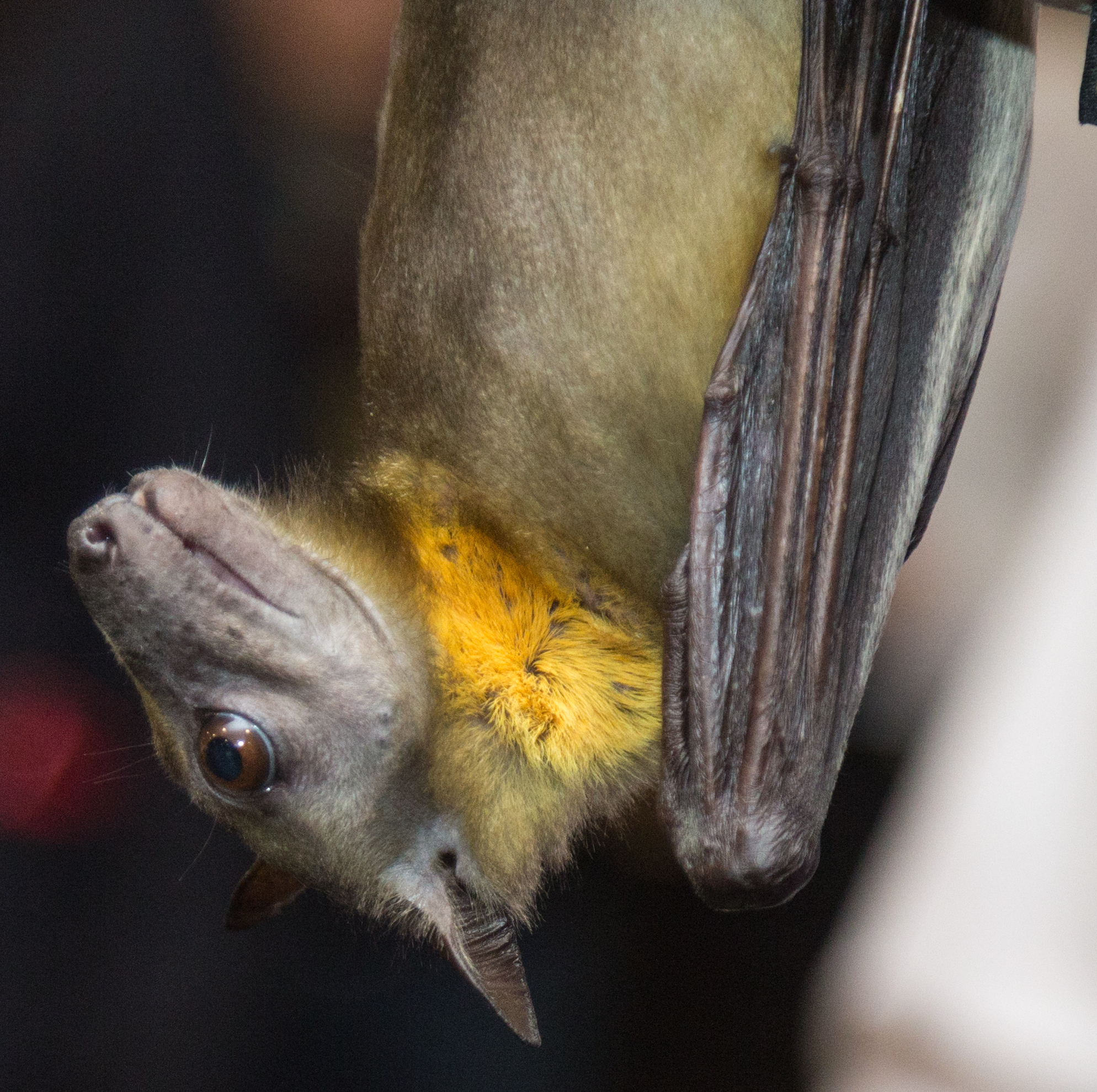 Leaders in bat conservation kicked off Bat Week 2017 in Washington, D.C., on Tuesday with a reception in the Rayburn Building. Photos: Kayt Jonsson/USFWS